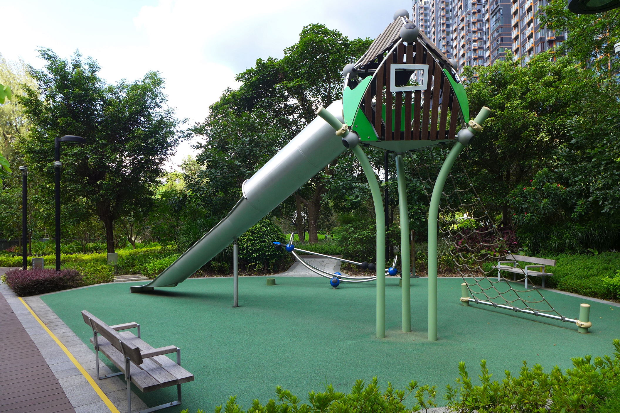 Double Cove Phase 2 Garden Playground